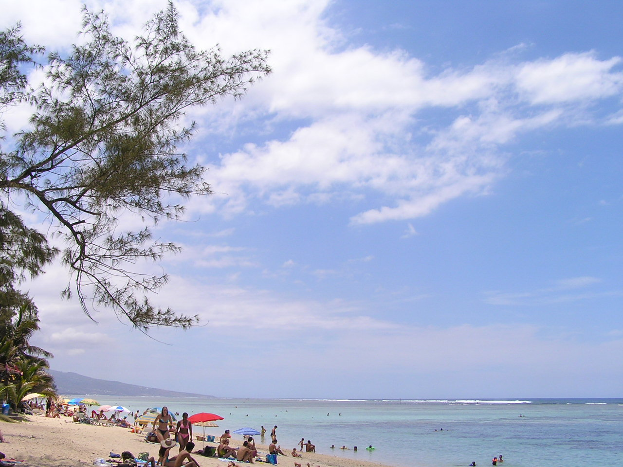 L'Ermitage beach at Saint-Gilles, Saint-Paul, Réunion.